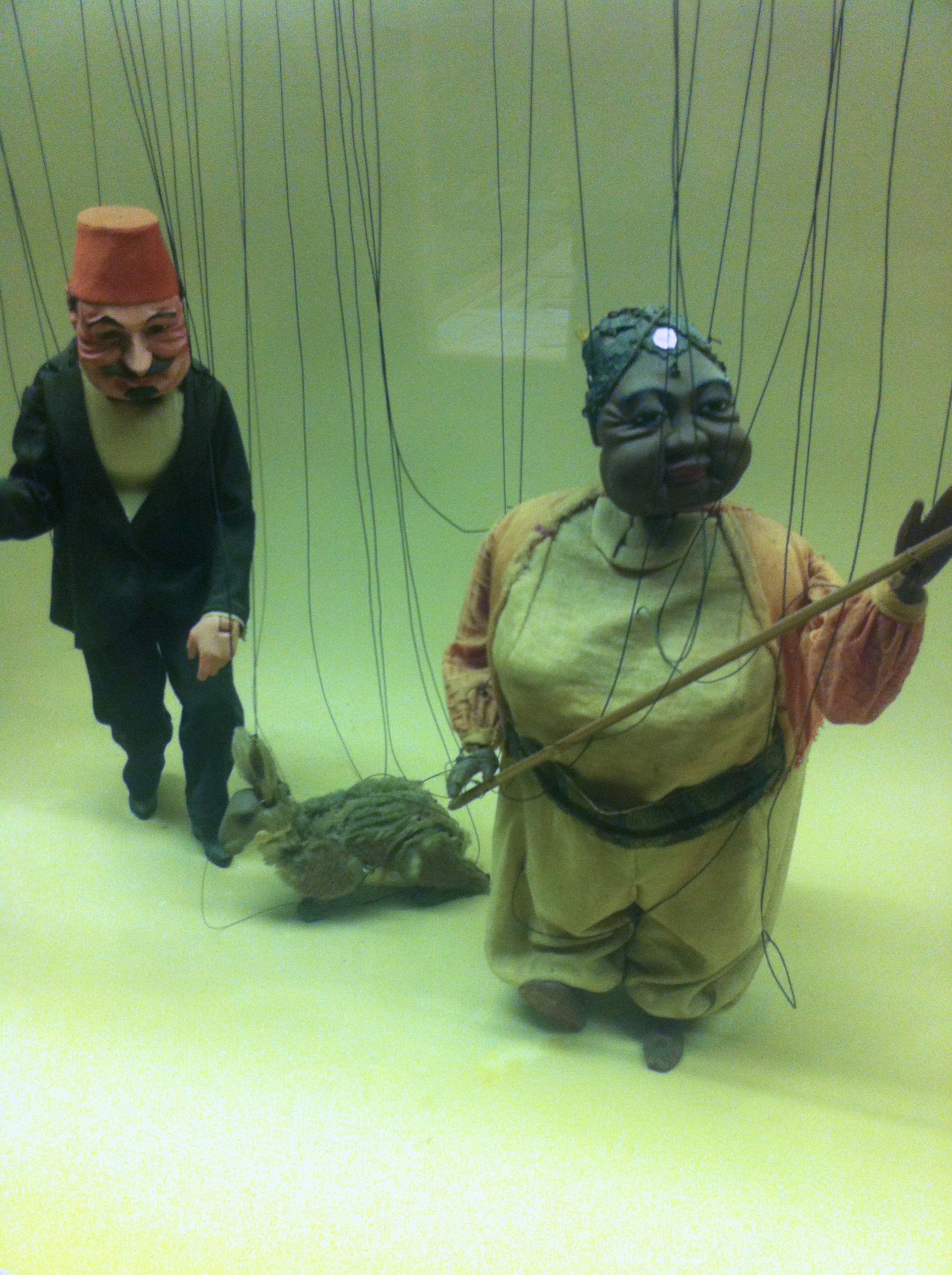 Marionettes carved by William Dwiggins as Boston Public Library.